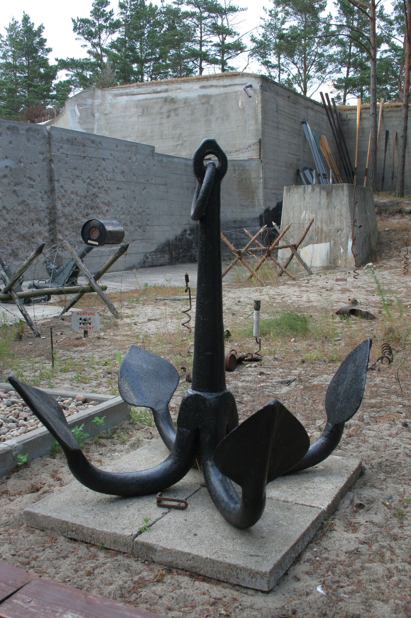 Outside exhibition in Museum of Coastal Defence.